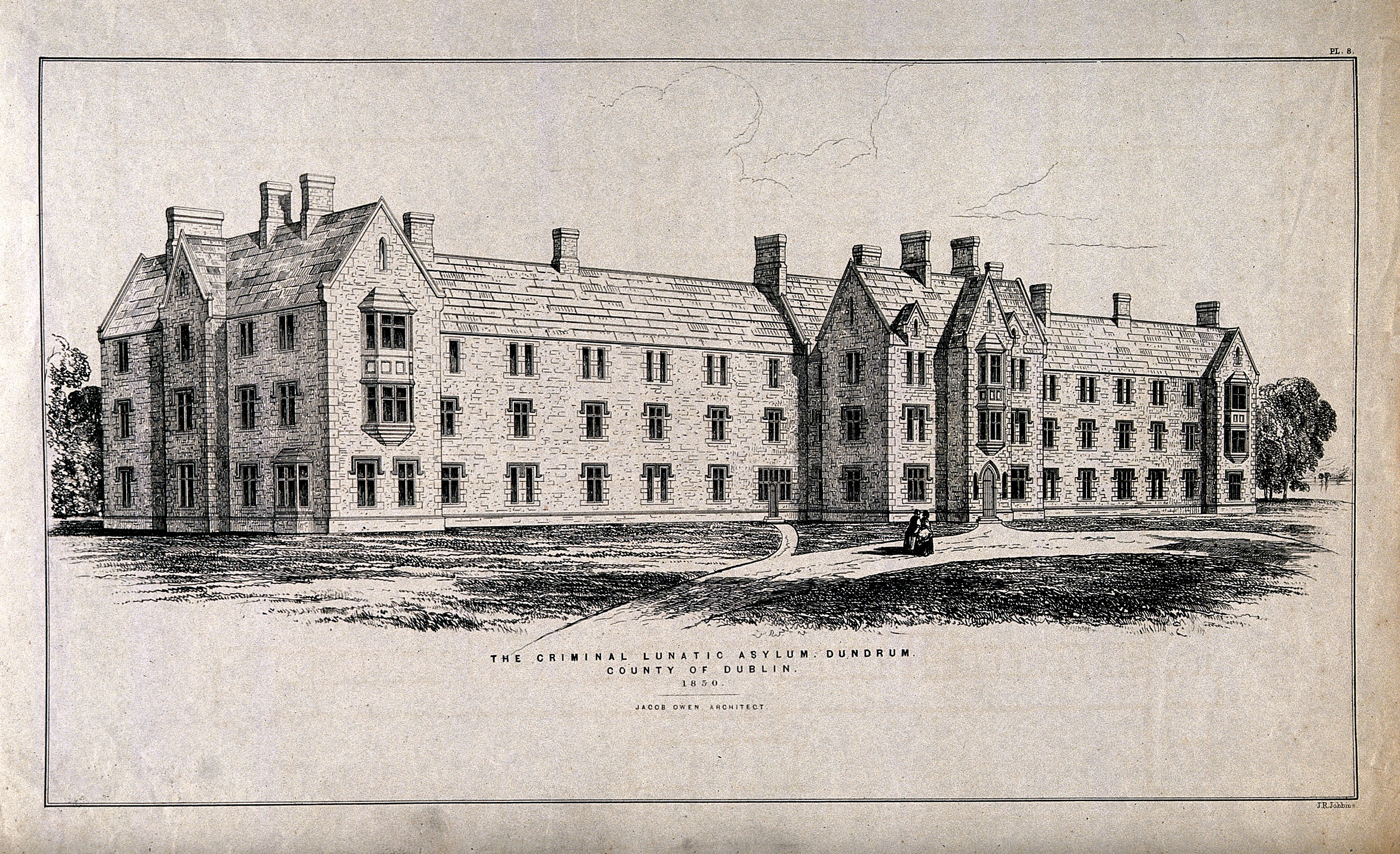 The Criminal Lunatic Asylum, Dundrum, Dublin, Ireland. Transfer lithograph by J.R. Jobbins, 1850, after J. Owen. Iconographic Collections Keywords: Mental Health; CRIMINAL; Hospitals, Psychiatric; John Richard Jobbins; PSYCHIATRIC HOSPITAL; Criminals; ASYLUM; INSTITUTIONS; Jacob Owen